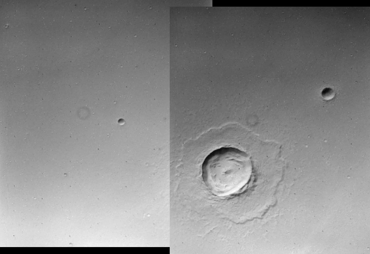 Belz crater on Mars. Mosaic of two Viking 1 images from camera B (010A54 and 010A56). Clear filter was used for these images. Resolution is about 41 m/pixel. This is an approximate reconstruction of a figure on p.75 of NASA SP-441: VIKING ORBITER VIEWS OF MARS, which has the following caption: Rampart crater in Chryse Planitia. The outer edge of the inner ejecta layer of Belz Crater is demarcated by a low ridge or rampart. On the surface of the ejecta layer are faint radial striations and concentric ridges and grooves. Outside the rampart, the topography is similar to the distal parts of lunar and mercurian ejecta, with numerous isolated hummocks and indistinct radial ridges. Emission Angle: 21.4 Incidence Angle: 53.7 Latitude: -21.4 Longitude: 316.5 Phase Angle: 74